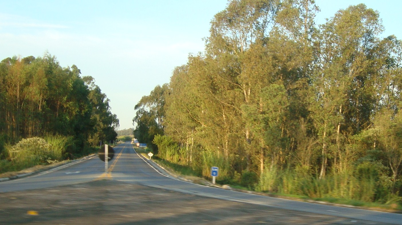 Road MG-458 in Careacu, Minas Gerais, Brazil